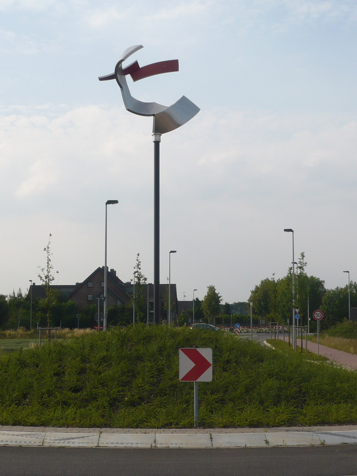 Sculpture Große Raumschwinge (large space wing) by artist Will Brüll in Meerbusch, Germany